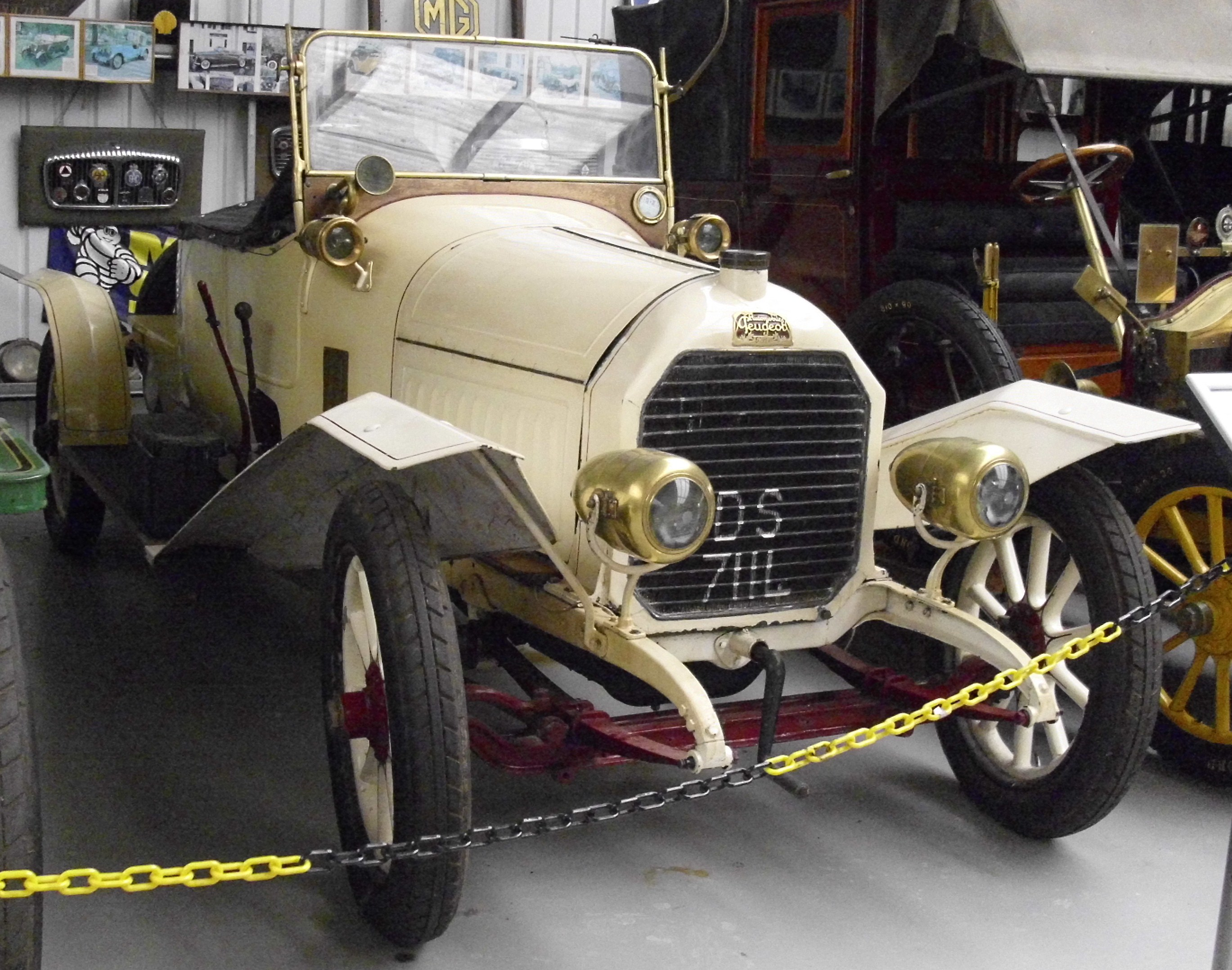 Peugeot Typ 144 A Colonial 1914